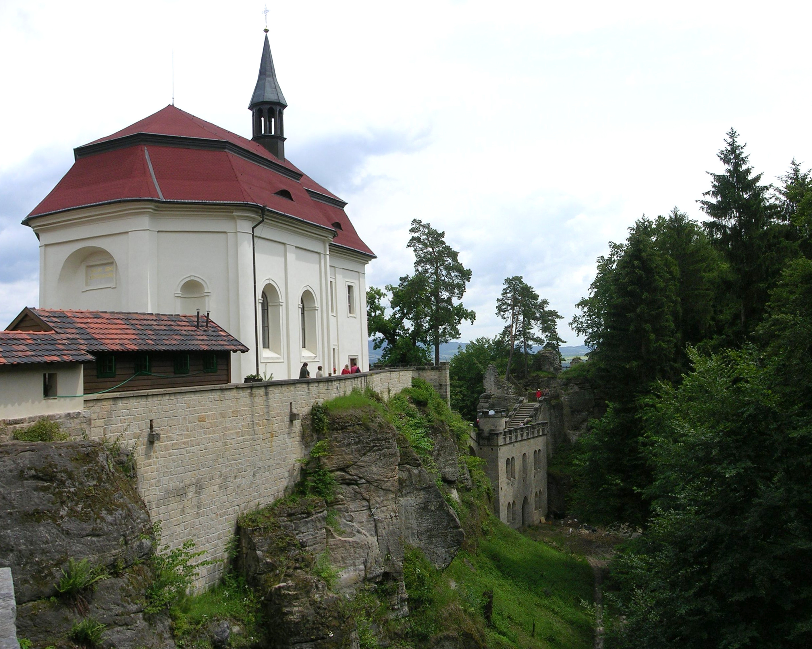 Valdštejn Castle, Liberec Region, the Czech Republic.